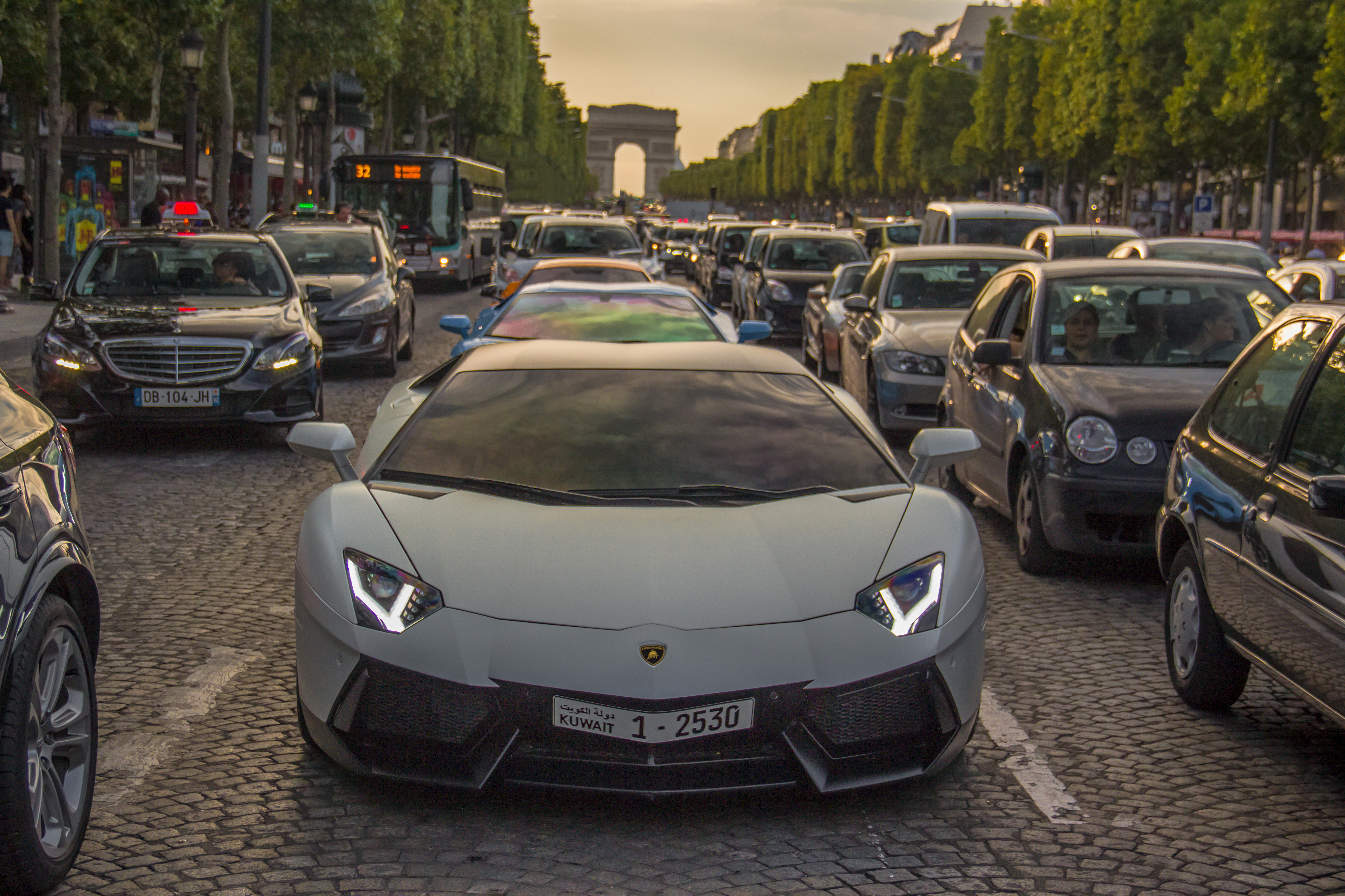 stuck in the traffic jam